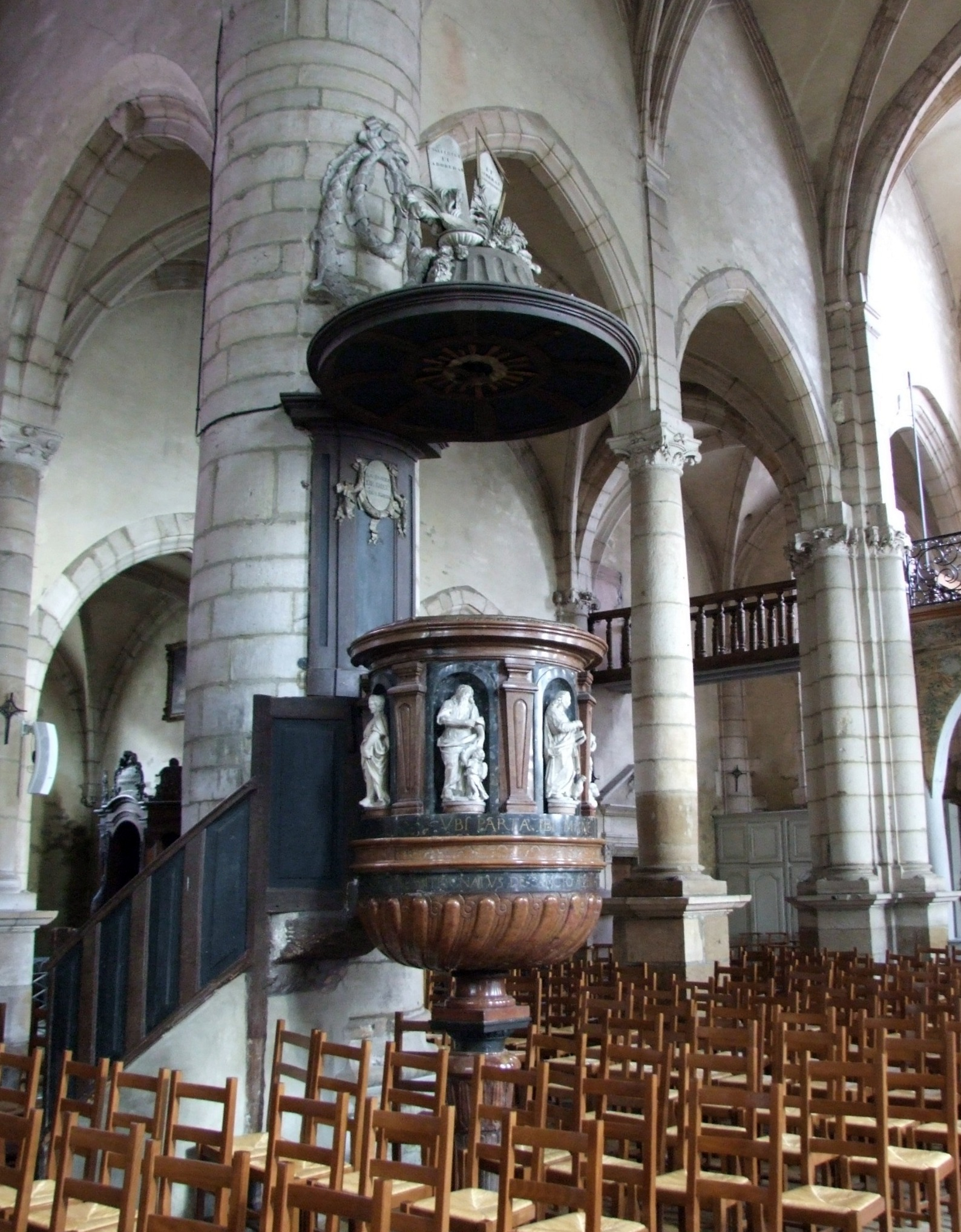 Saint Jean-Baptiste Church, Saint-Jean-de-Losne, Burgundy, FRANCE